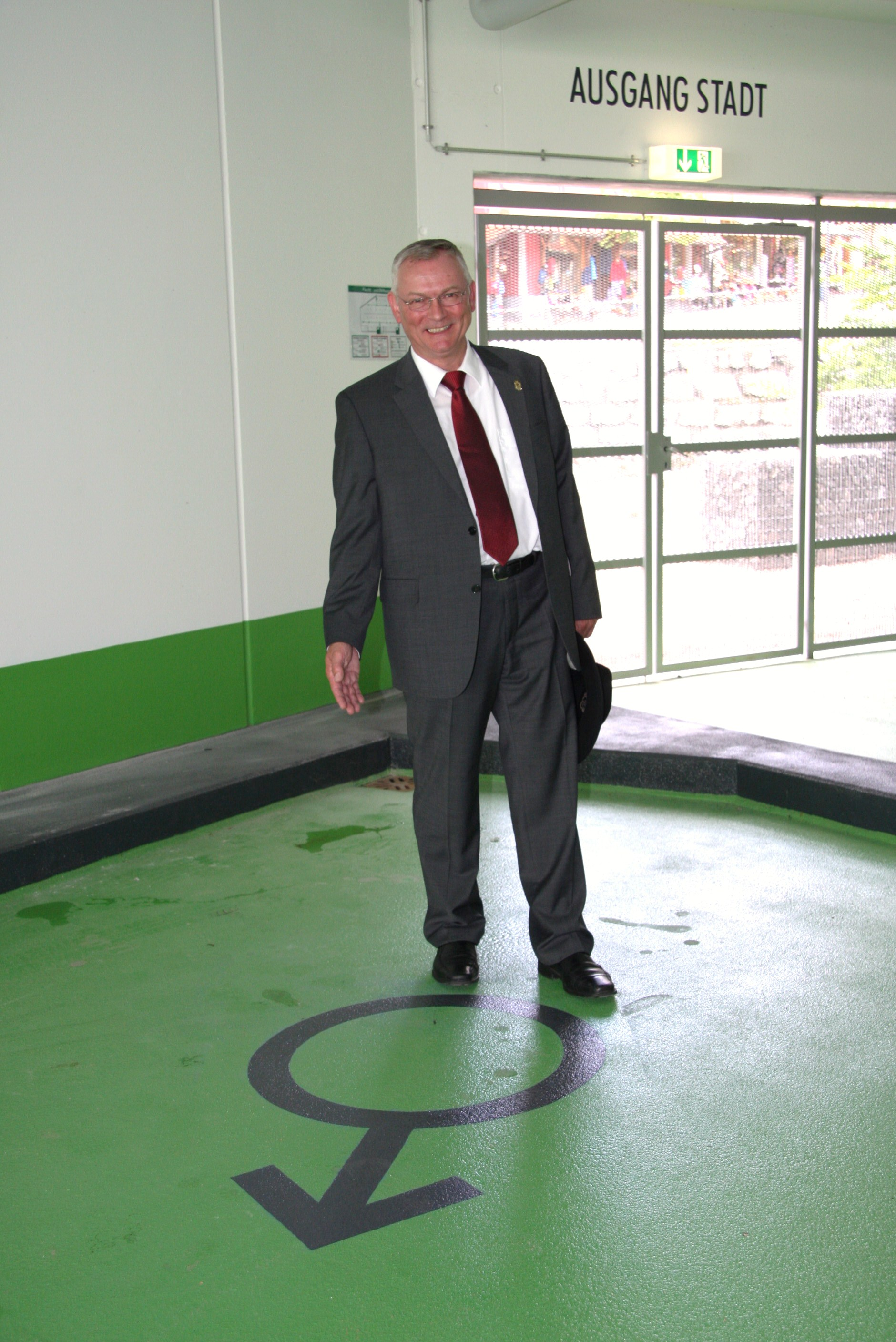 Mayor gallus Strobel